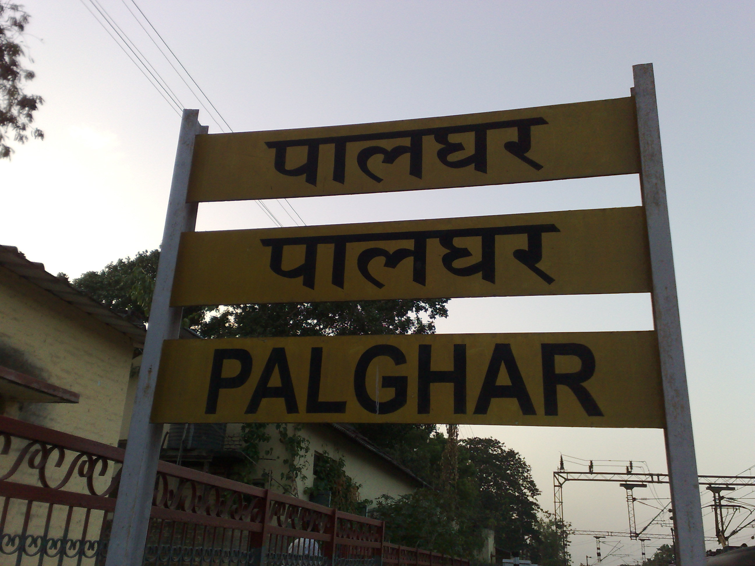 Palghar railway station - Stationboard